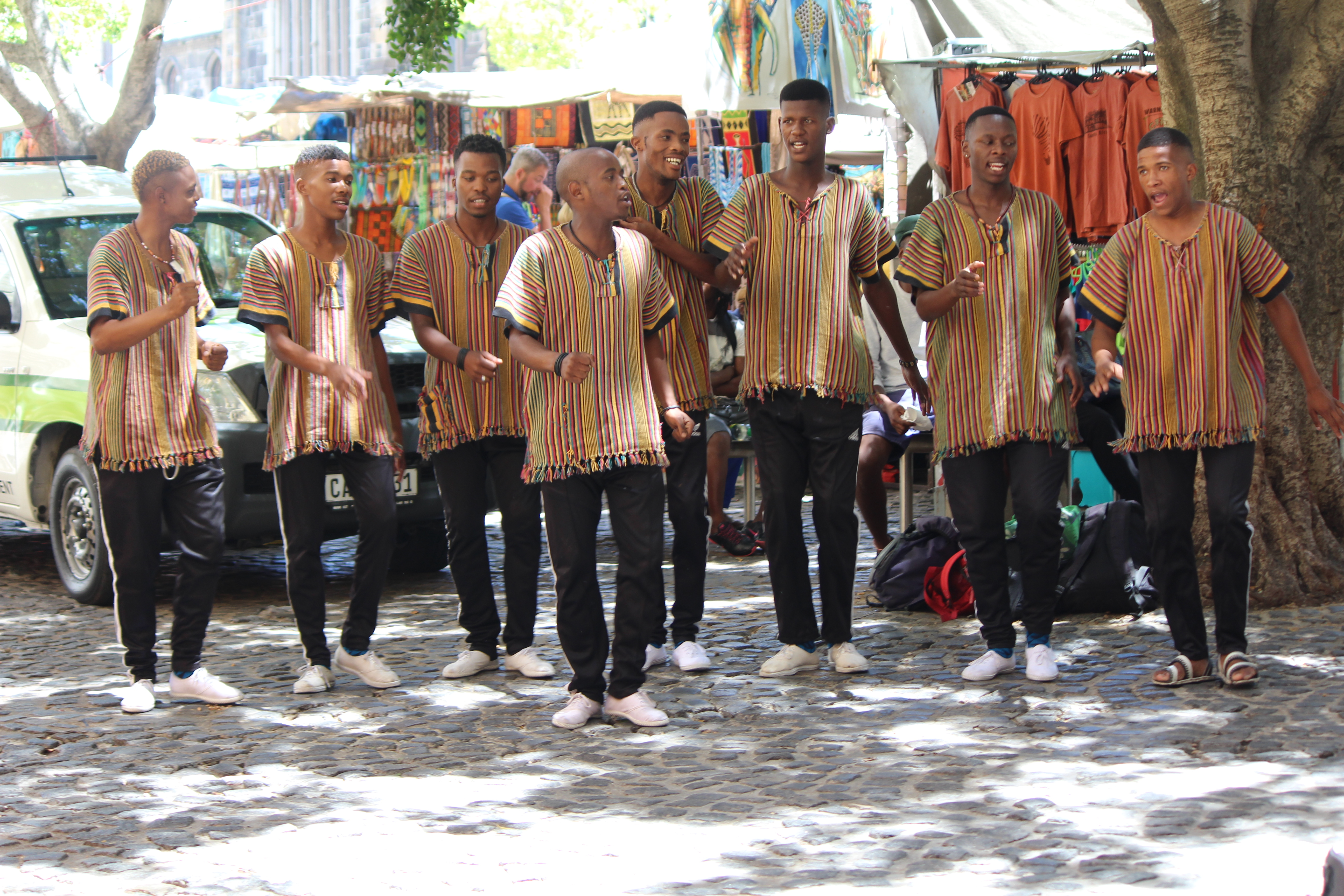 Group of young A Capella singers performing on a market street in Cape Town This is an image from South Africa